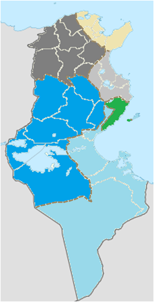 This work is the geographic disposition of the varieties of Tunisian Arabic within Tunisia. It was created by Houcemeddine Turki known as the User:Csisc by comparing the comtemporary linguistic works about Tunisian.